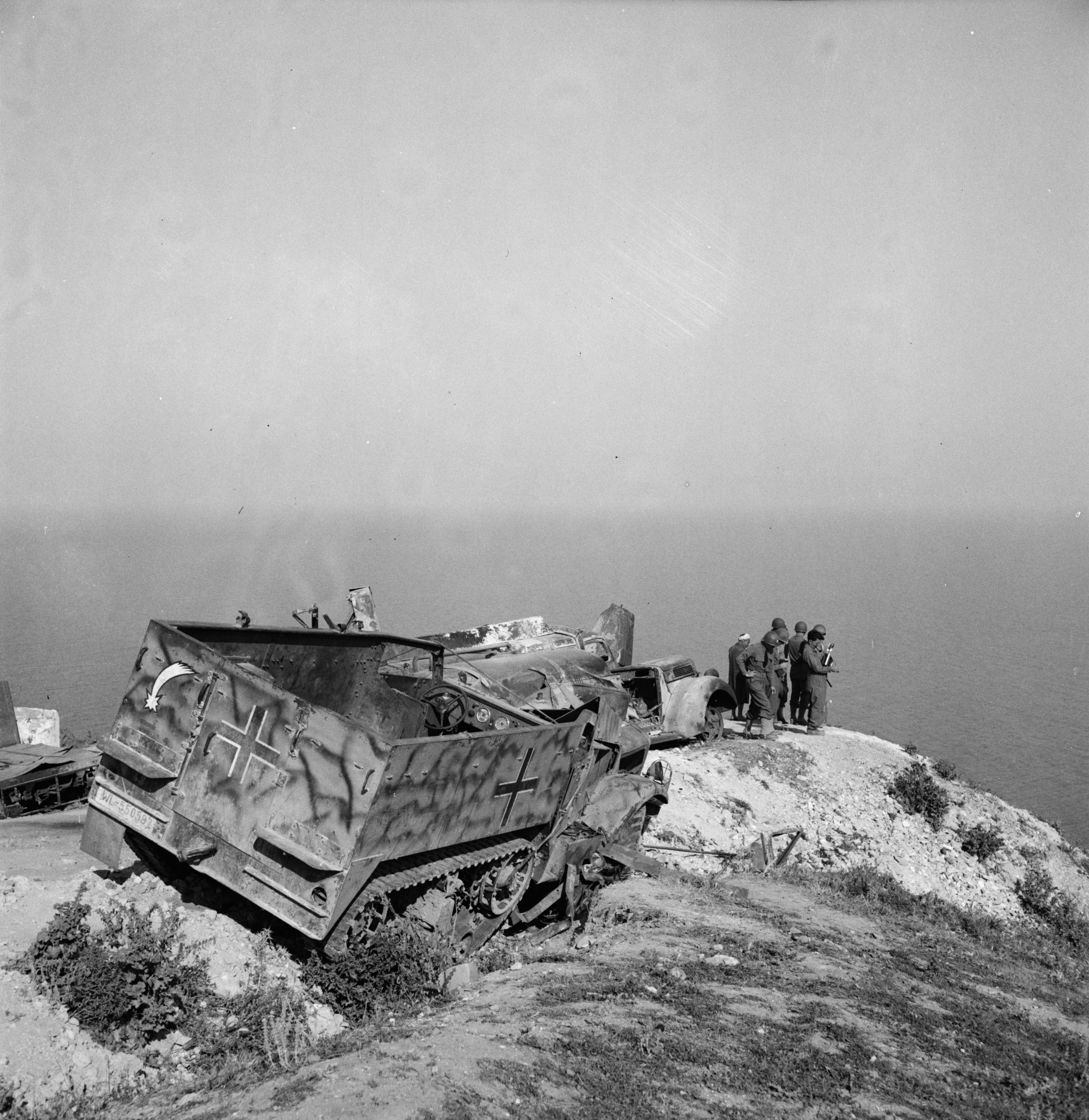 An abandoned M3 halftrack used by German troops in Tunisia, May 1943.